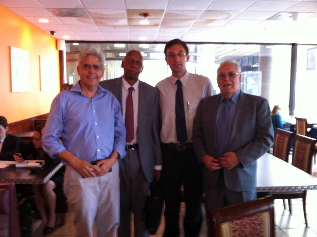 Aparicio with Elizardo Sanchez and Fariñas